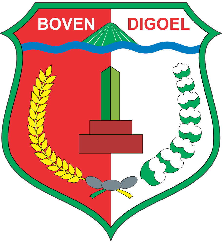 Boven Digoel Regency Coat of arms. Boven Digoel Regency was a Dutch prison camp in the Dutch East Indies at the headwaters of the river Digul, where Indonesian nationalists and communists were interned between 1928 and 1942. Independent Indonesia has kept the original Dutch name of the area.